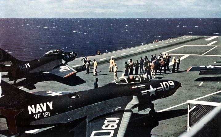 U.S. Navy Grumman F9F-8 Cougar of VF-121 Peacemakers being launched from the aircraft carrier USS Hancock (CVA-19). VF-121 was assigned to Carrier Air Group 12 (CVG-12) aboard the Hancock for a deployment to the Western Pacific from 10 August 1955 to 15 March 1956.